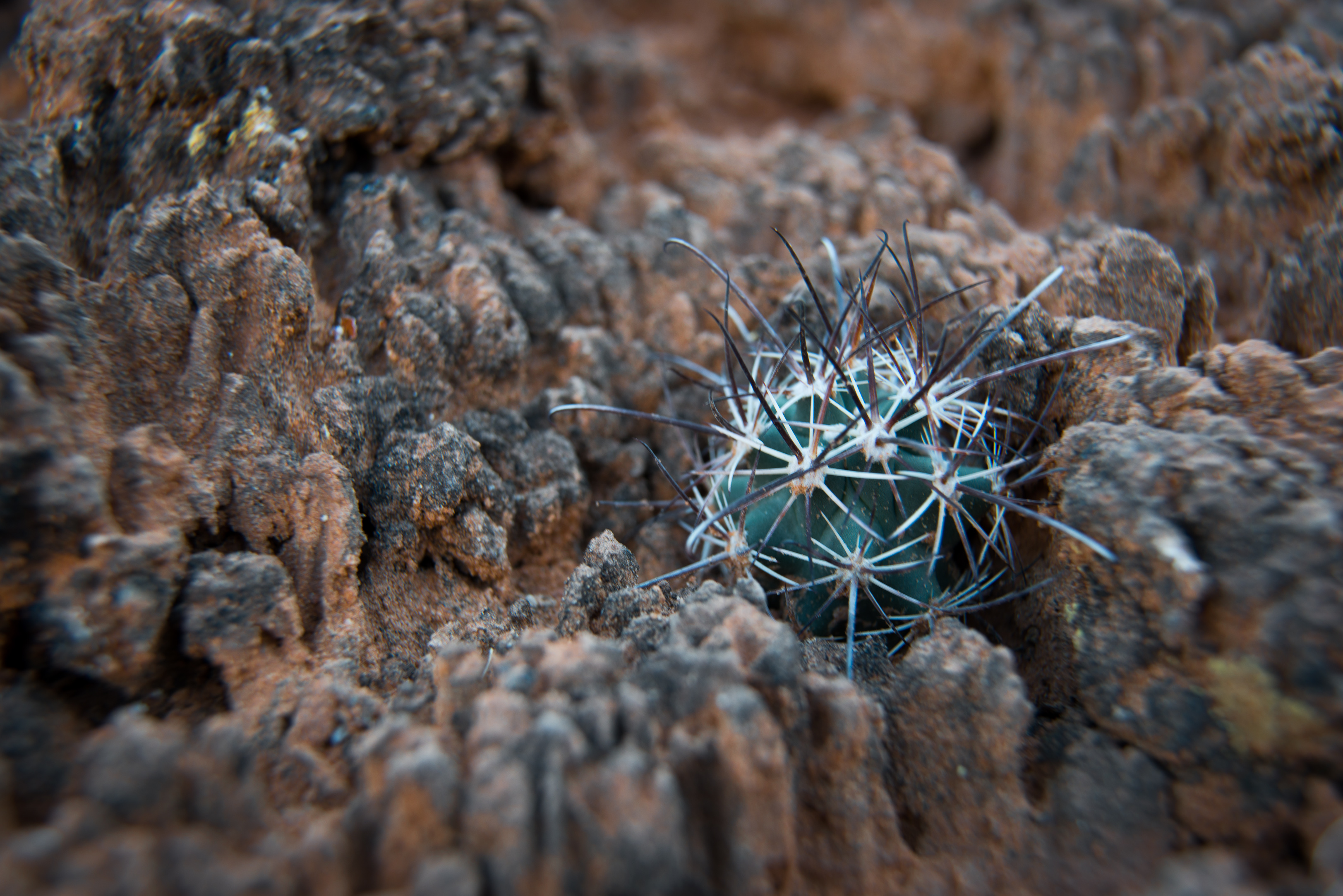 (NPS Photo by Neal Herbert)